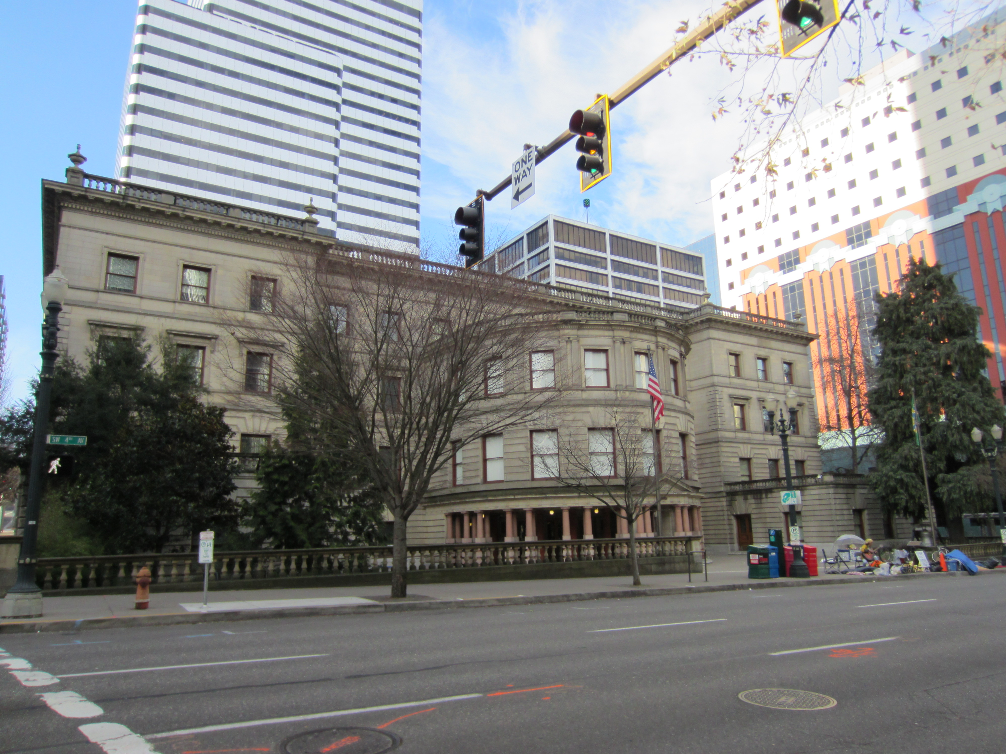 City Hall in downtown Portland, Oregon in 2012